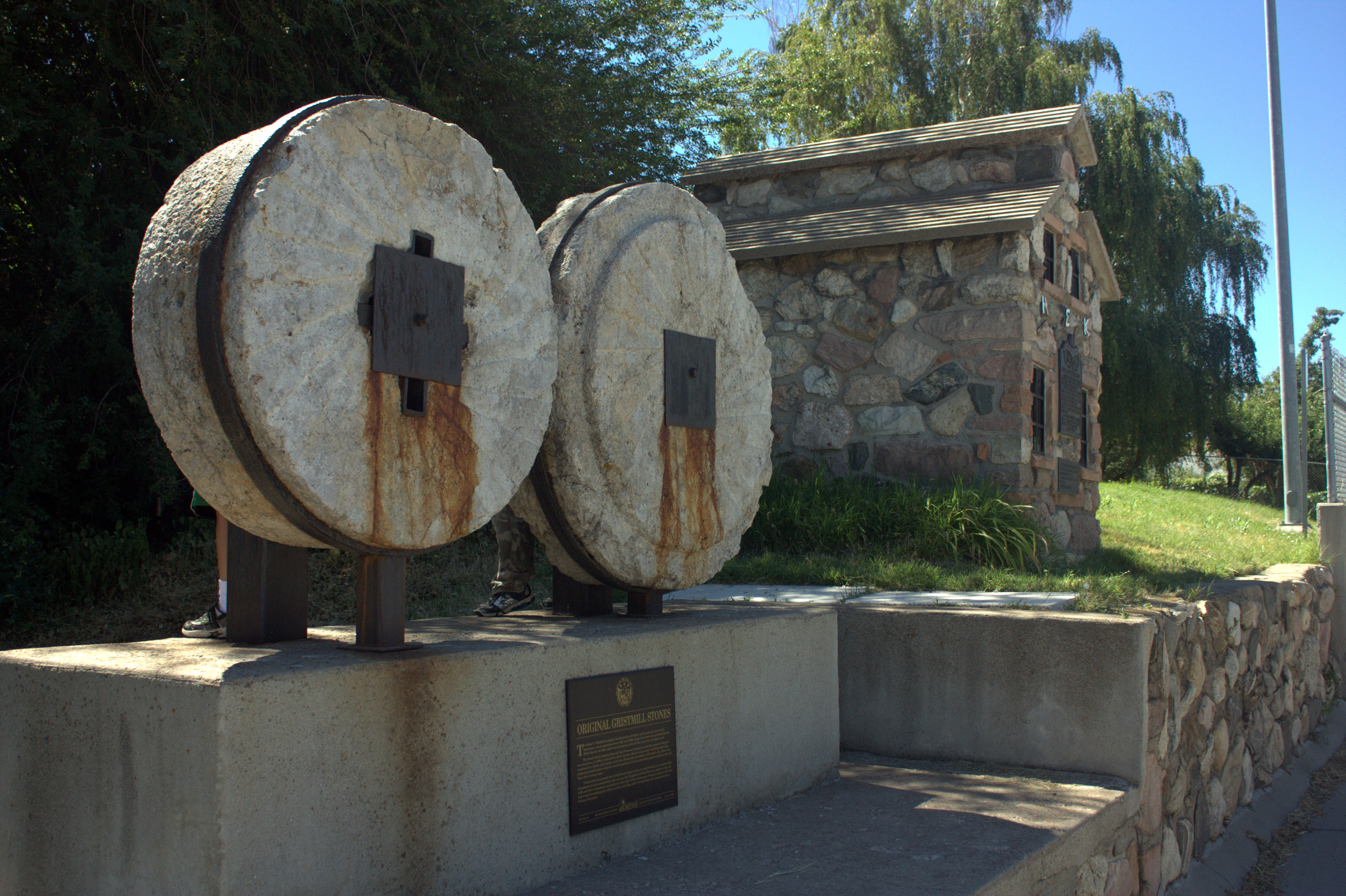 The Heber C. Kimball Gristmill in Bountiful Utah. Dedicated on May 6, 1853 and Surveyed on the 1st of August 1852 and operated until 1892.